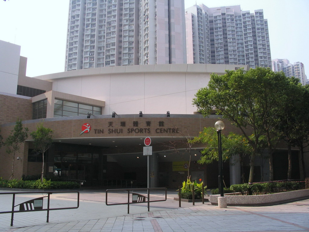 天水圍-天瑞體育館 Tin Shui Sports Centre, Tin Shui Wai